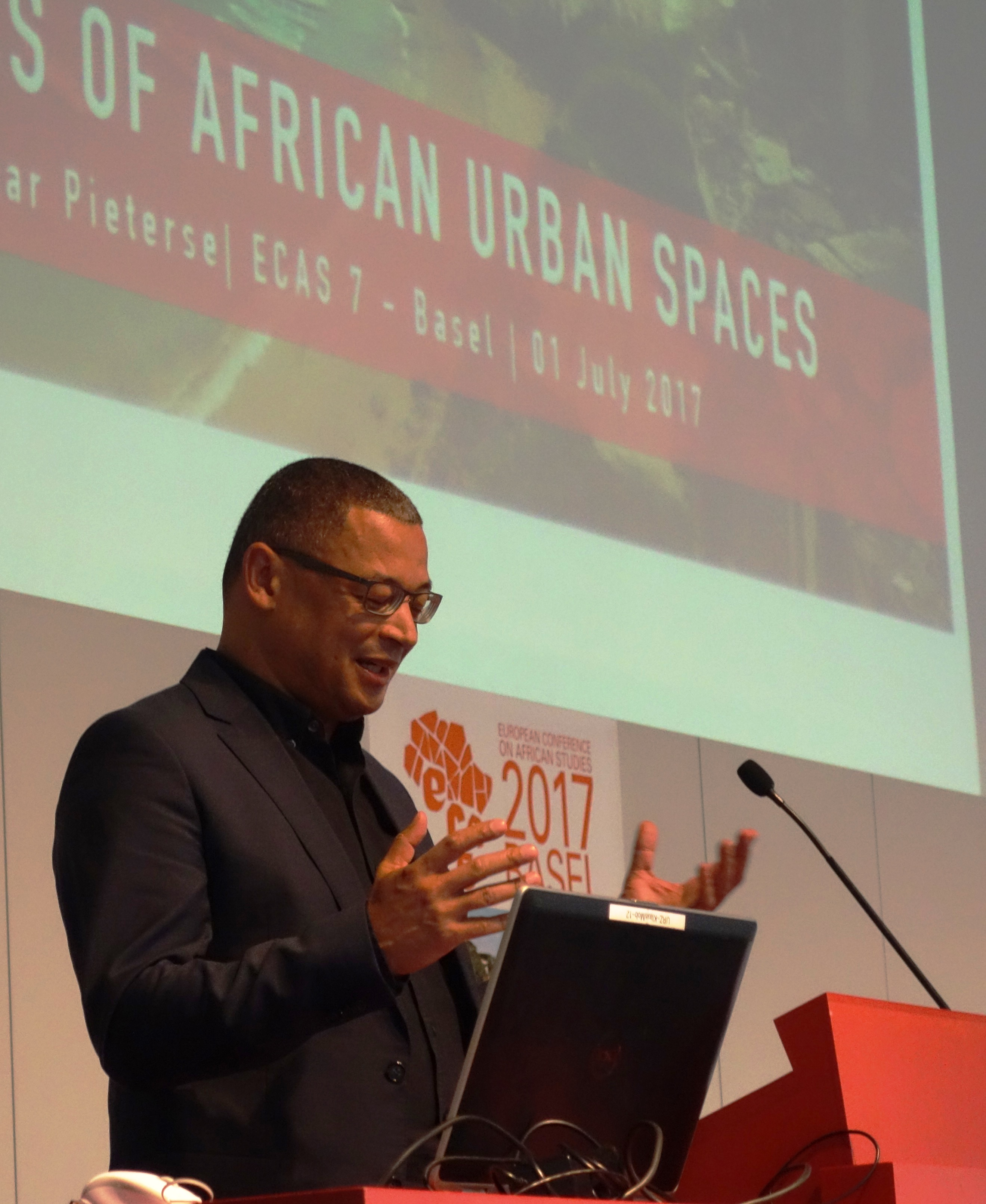 South African geographer & sociologist Edgar Pieterse speaking at ECAS (European Conference on African Studies) in Basel, July 2017